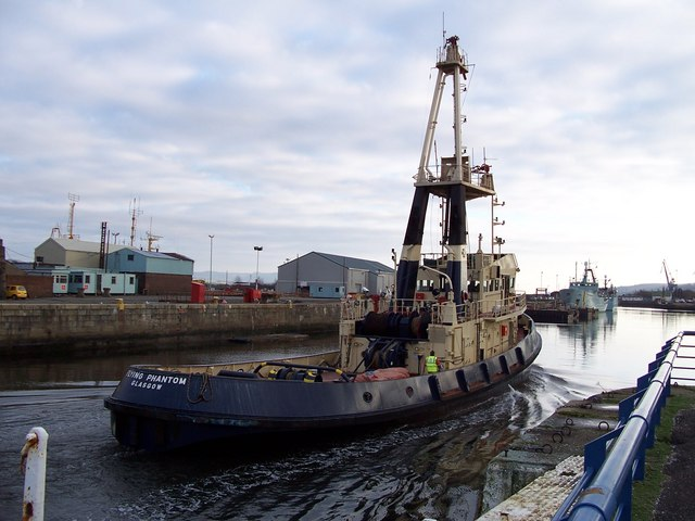 Flying Phantom at James Watt Dock At the western entrance to the dock. Tragically, Flying Phantom capsized and sank on the Clyde at Clydebank in December 2007 with the loss of three of the four crew.